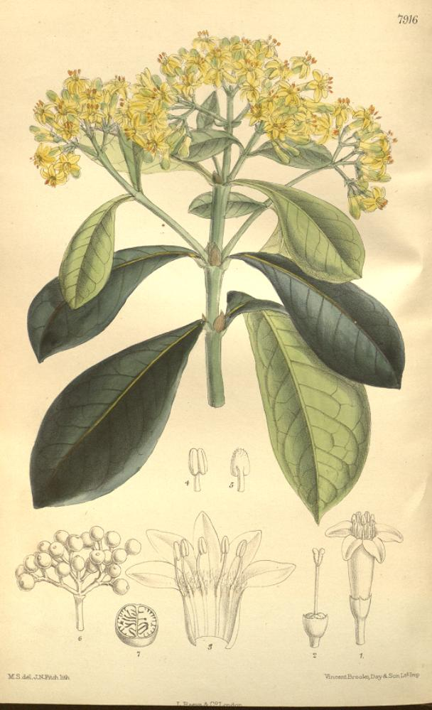 Illustration of Psychotria capensis